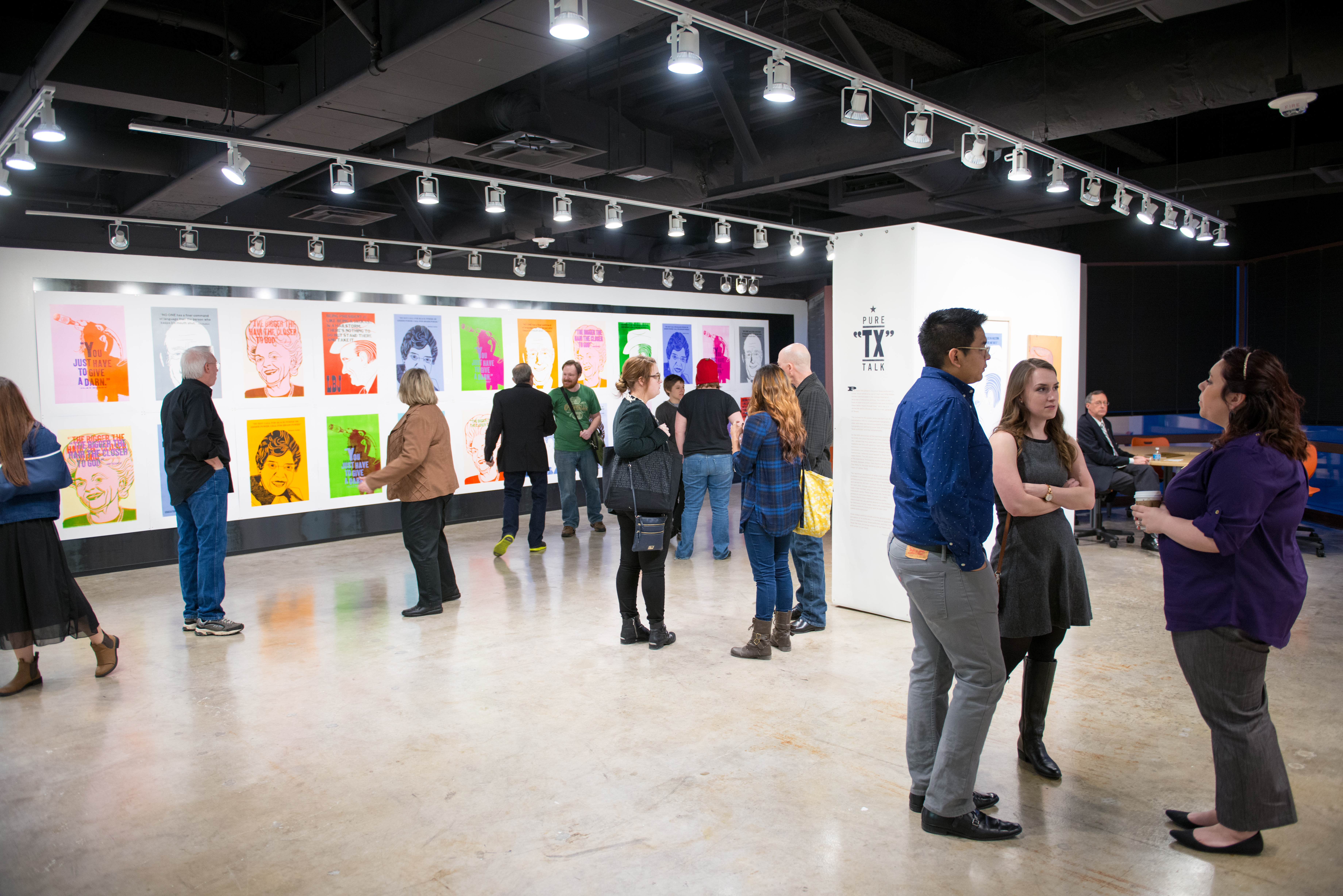 _15020-Virgil Scott Letterpress Exhibit 4664.jpg Virgil Scott Letterpress Exhibit at Texas A&M University–Commerce